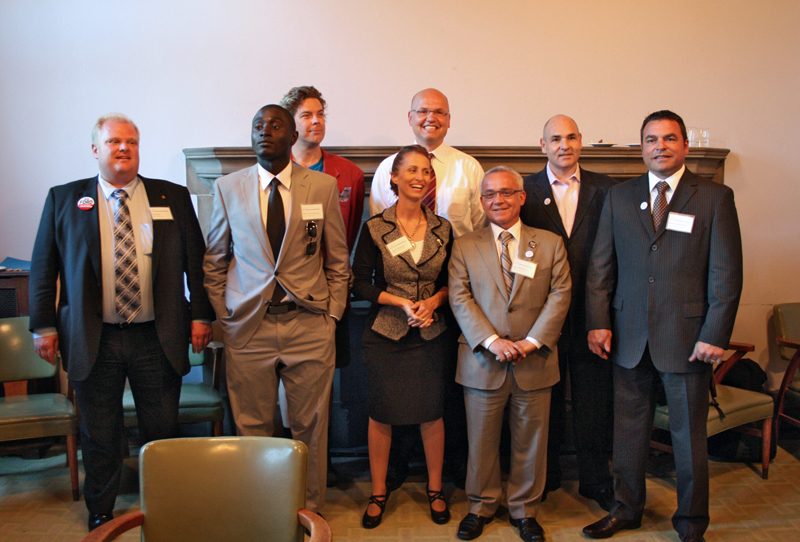 Mayoral candidates at the "Better Ballots" Mayoral Candidates Forum at Hart House, University of Toronto. From left to right: (front row) Rob Ford, Rocco Achampong, Sarah Thomson, John Pantalone, George Mammoliti, (back row) Keith Cole, Rocco Rossi, George Smitherman.